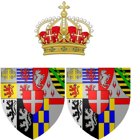 Arms of Marie Jeanne of Savoy (1644-1724), Duchess of Savoy